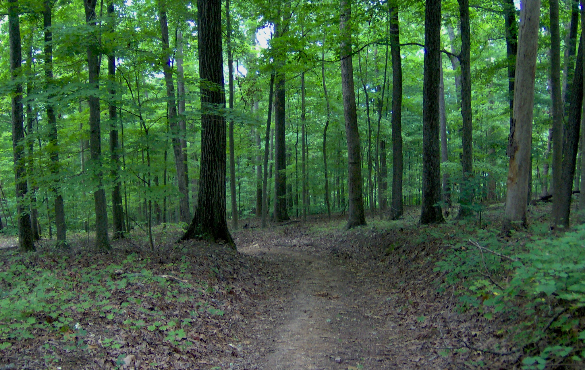 Oak forest on the slopes of High Point, a prominent hill in the east section of Norris Dam State Park in Anderson and Campbell counties, Tennessee, in the southeastern United States.